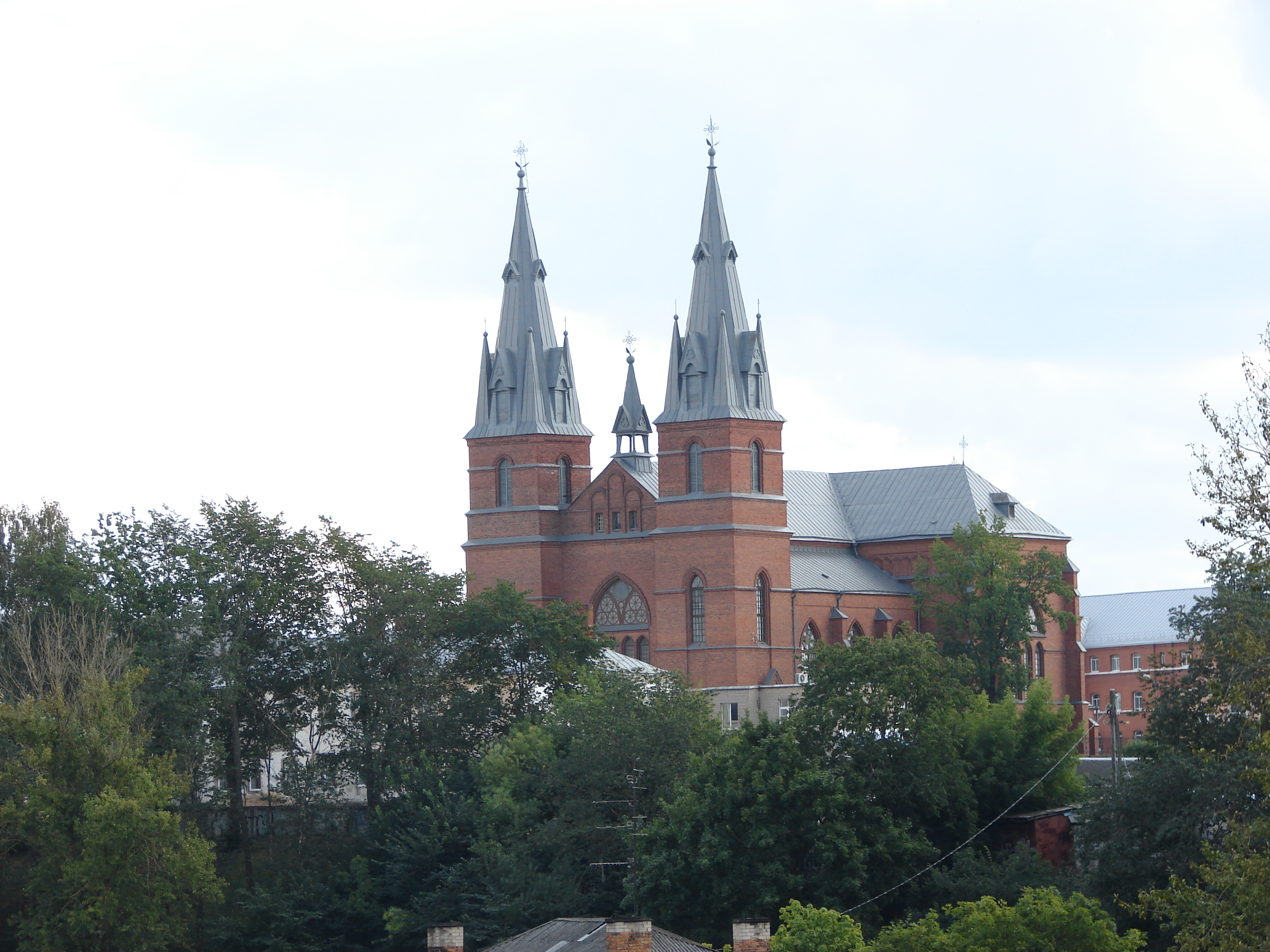 Rēzekne Sacred Heart of Jesus Roman Catholic CathedralLatviešu: Rēzeknes Vissvētākās Jēzus Sirds Romas katoļu katedrāle (1914.), Latgales iela 88b, Rēzekne